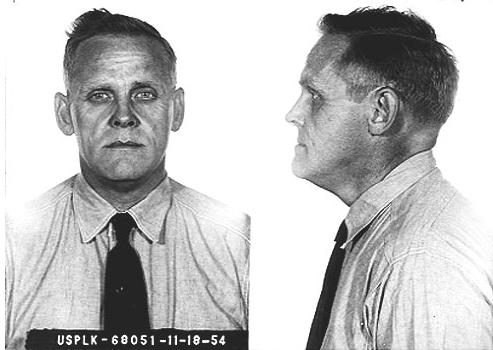 Gus Hall, photographed before he did time in Leavenworth, Kansas, due to "Conspire and Teach Overthrow of the U.S. Government by Force or Violence."